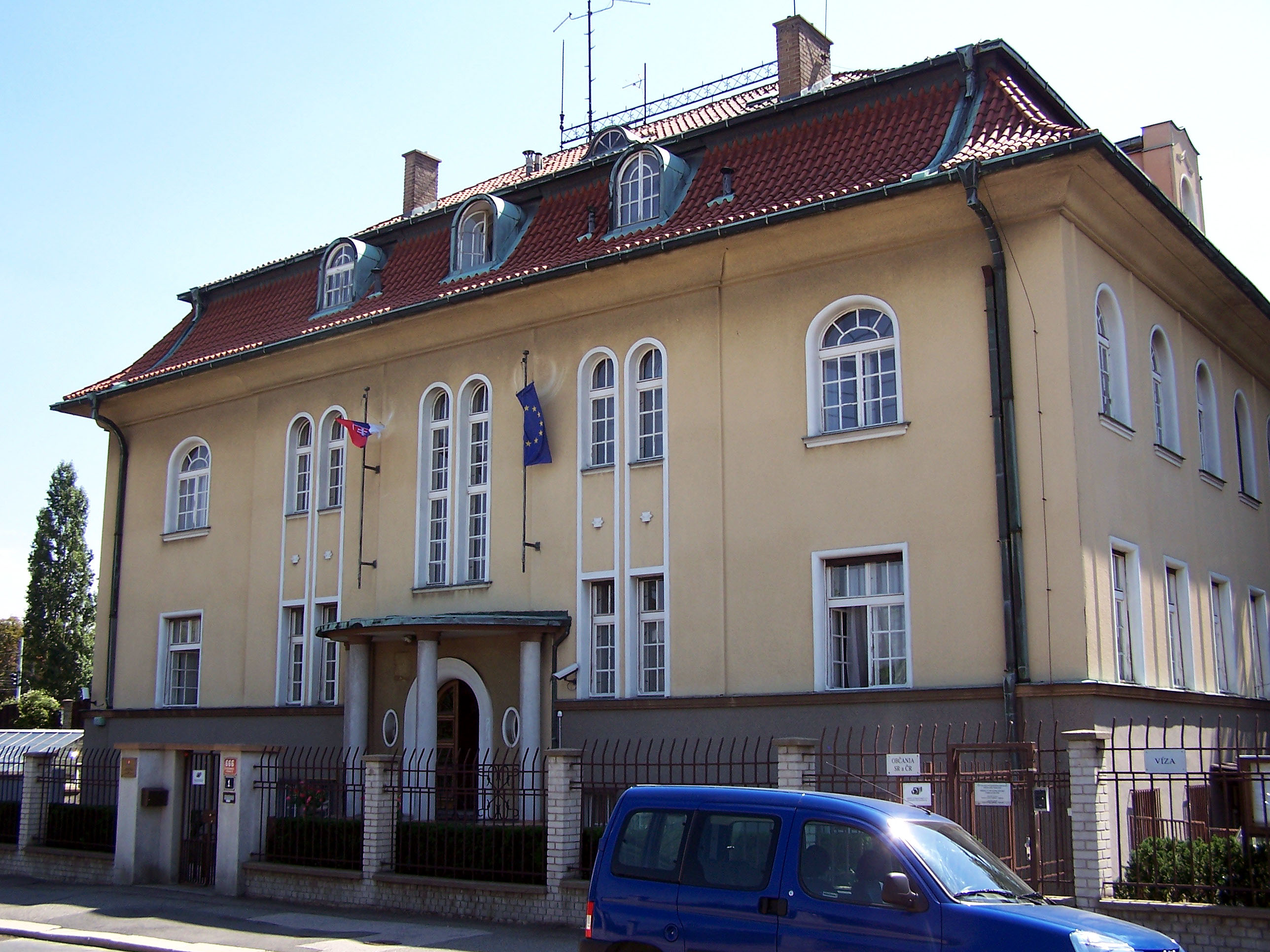 Embassy of Slovakia in Prague, Czech Republic